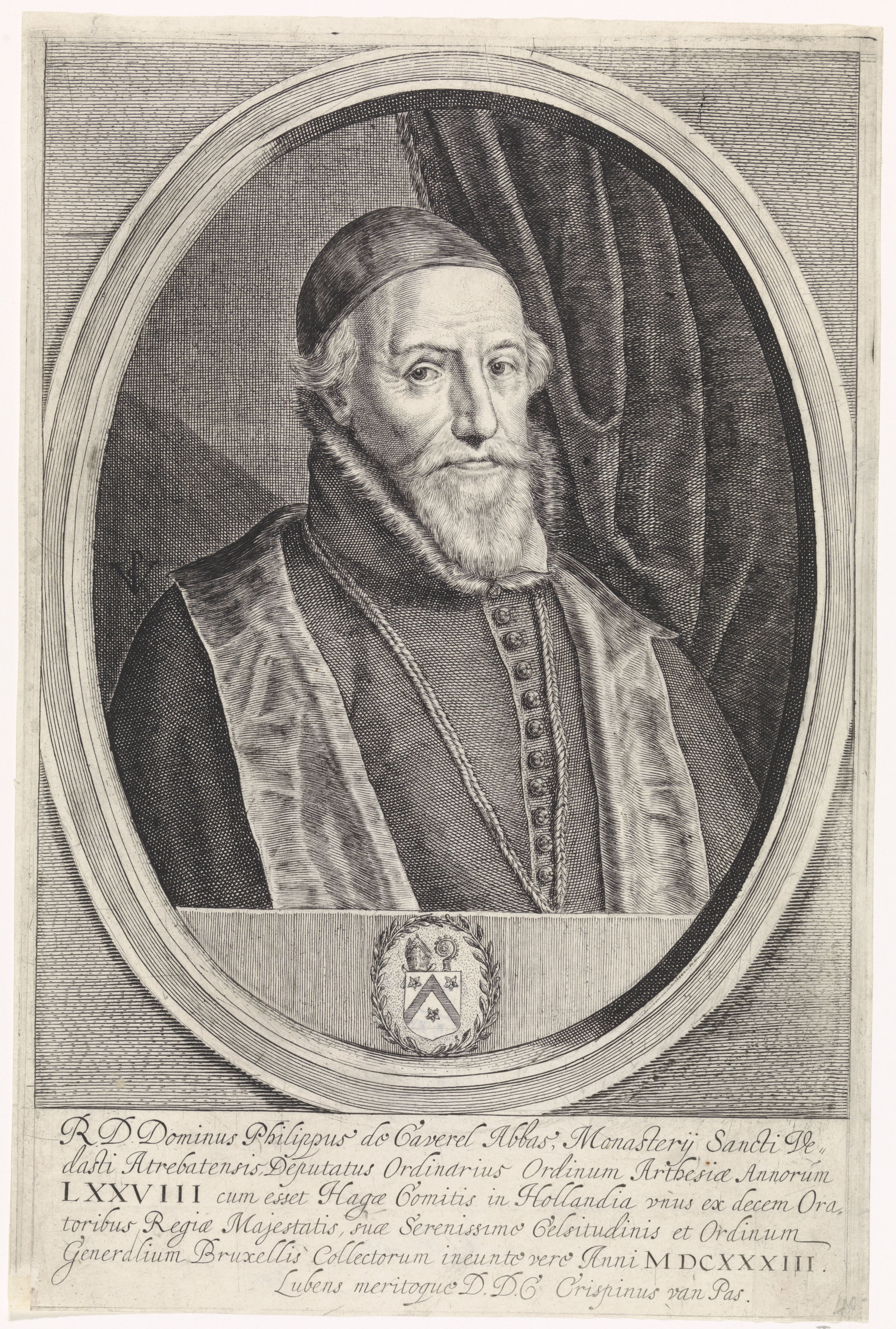 Portrait of Philippe de Caverel